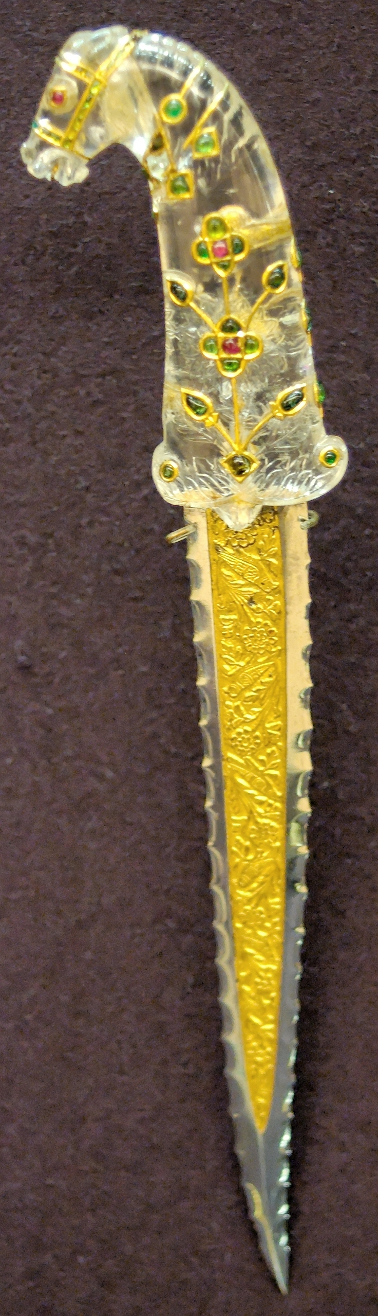 Dagger with horse head pommel, Mughal art from India.